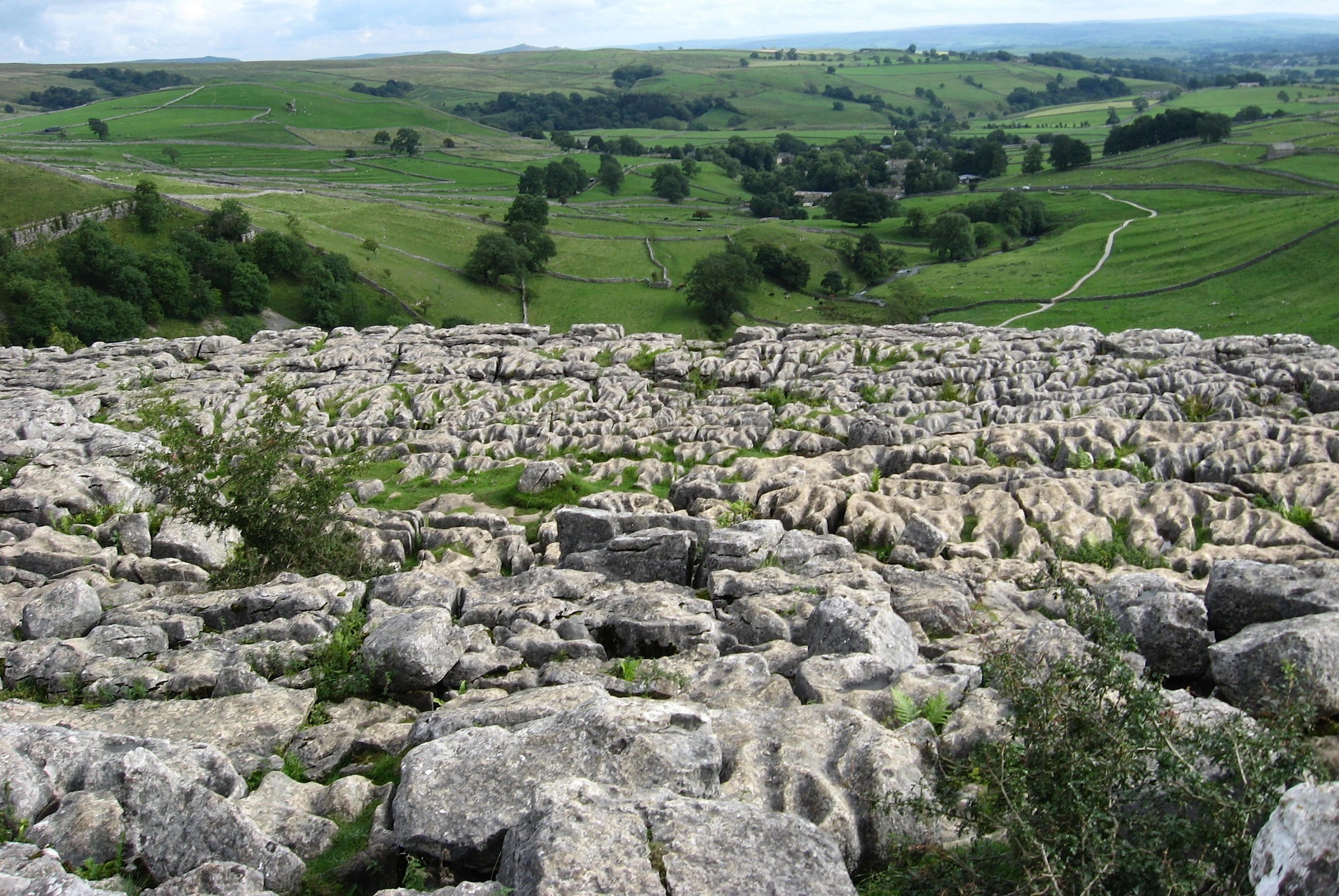 Malham Cove, view s. over Airedale from cliff-top